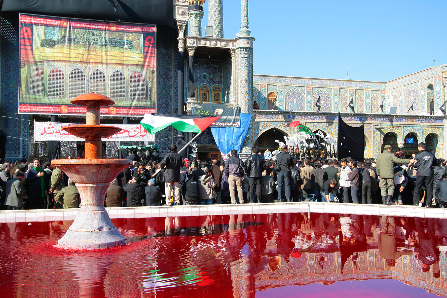 Mourning of Muharram